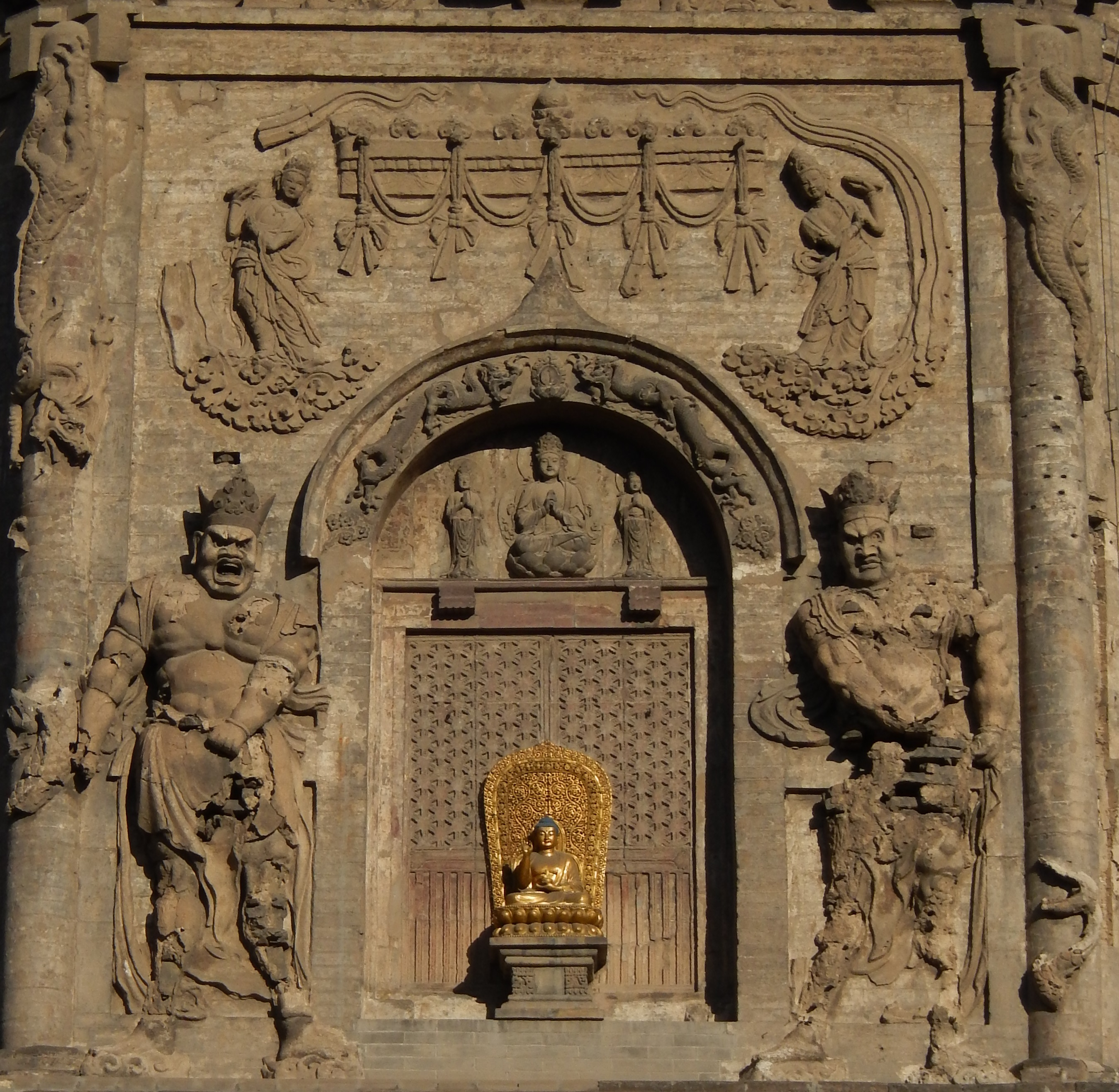 Panel on the south side of the Liao dynasty octagonal brick pagoda at Tianning Temple, Beijing.